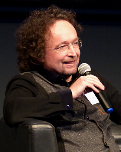 Bernhard Hennen during a literary reading at the first annual convention of the Phantastik-Autoren-Netzwerk PAN in Cologne, 2016.